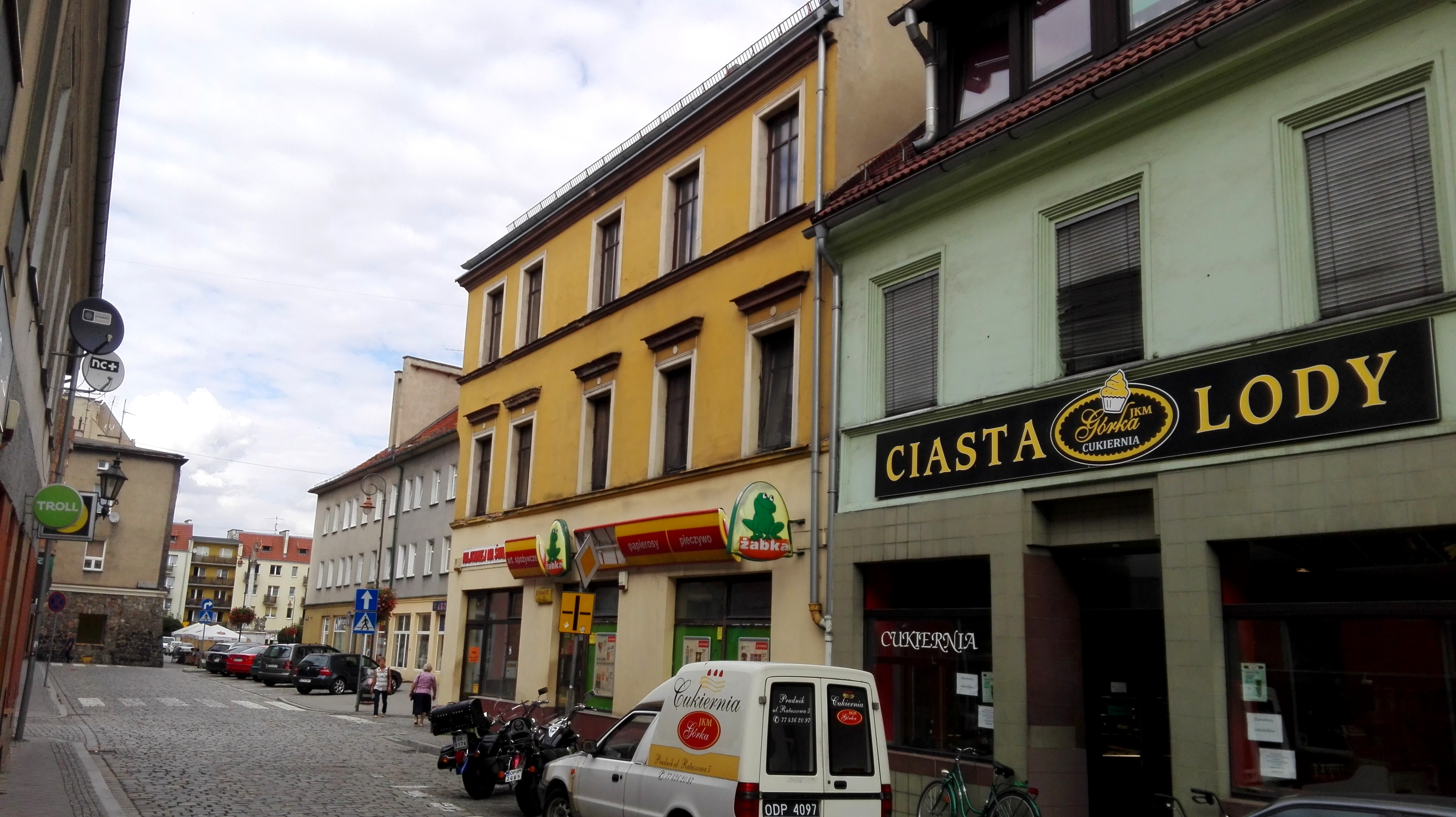 Ratuszowa Street in Prudnik